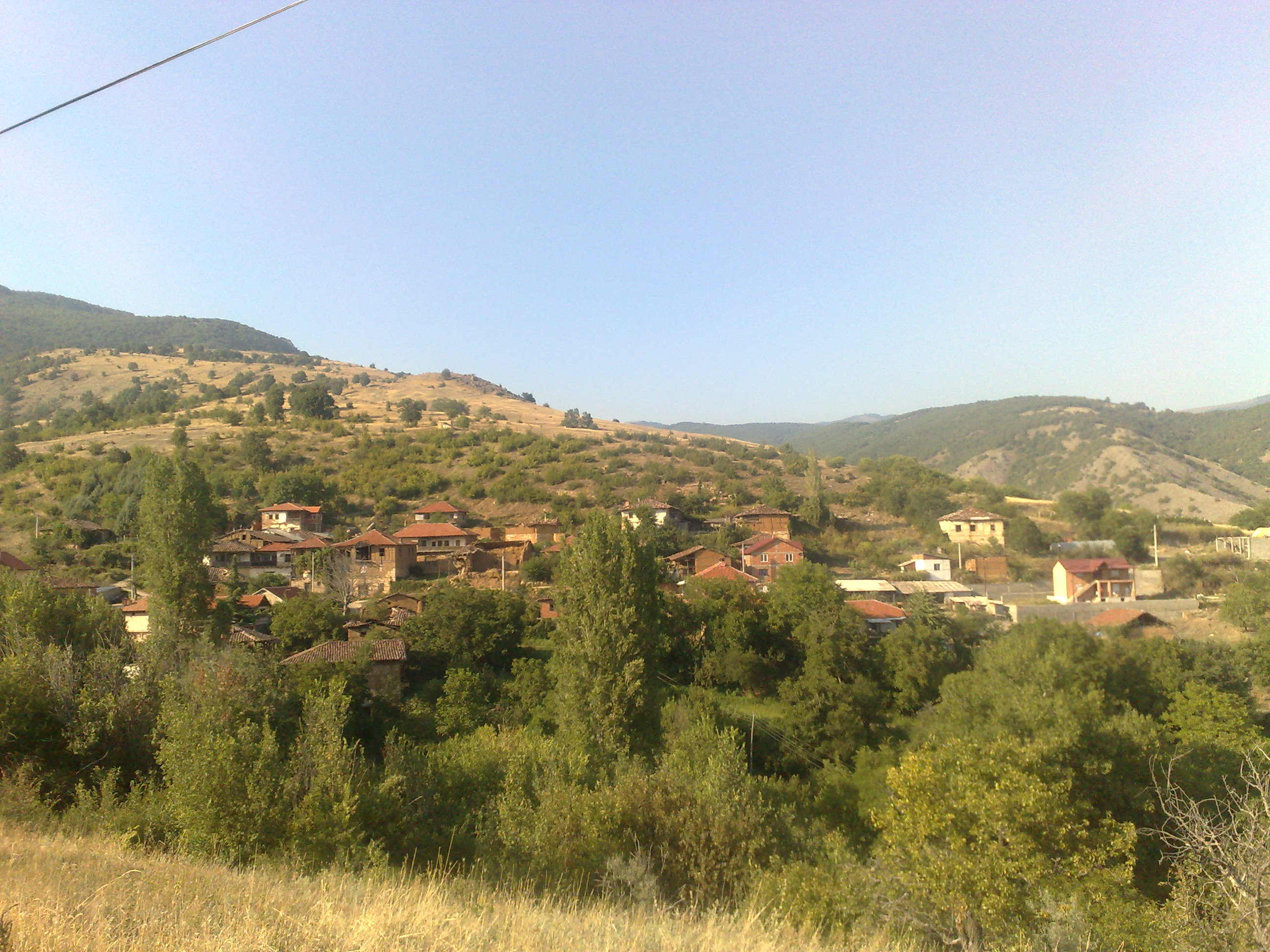 Village of Gornjani, Macedonia